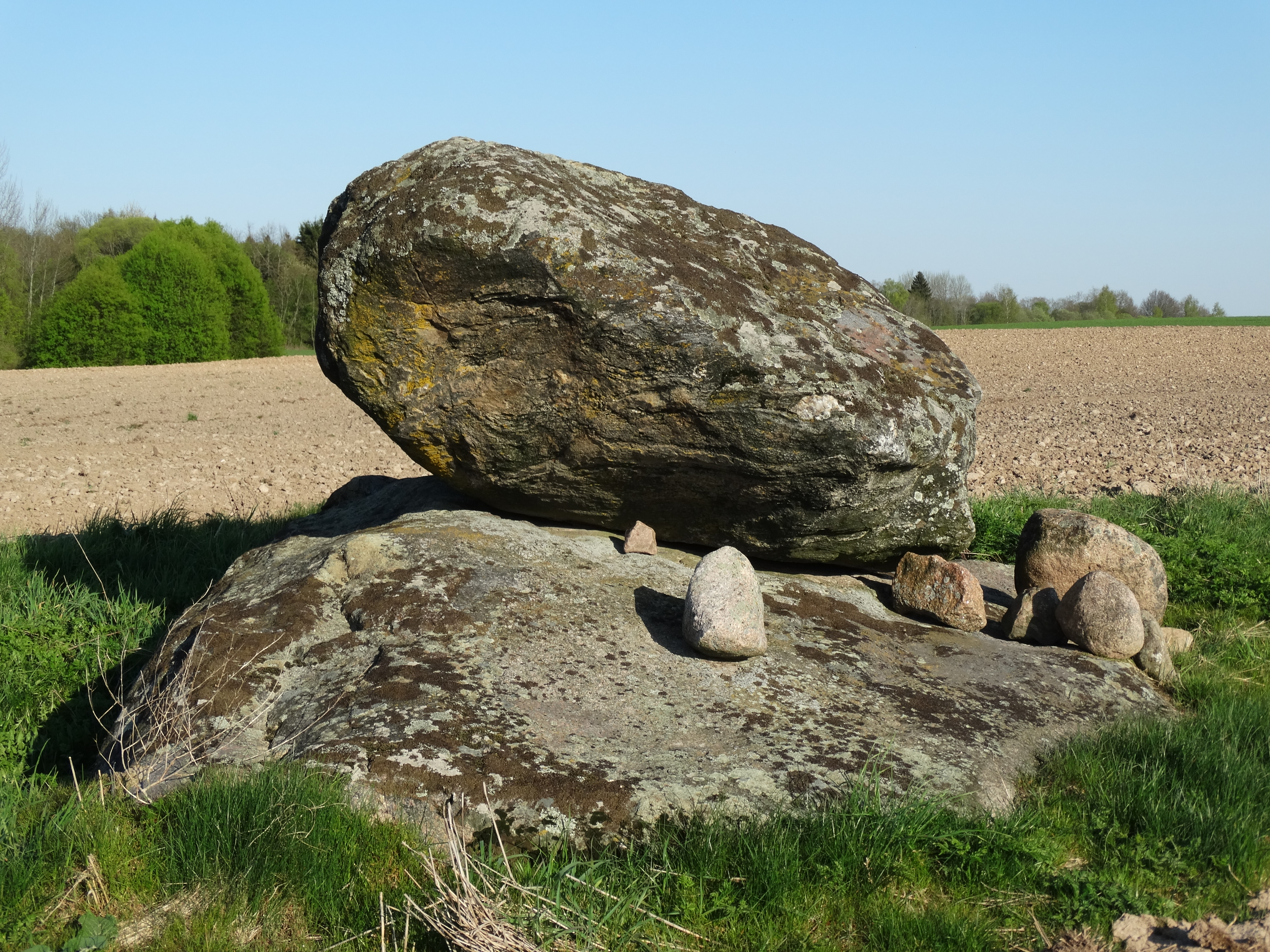 Dūdai stones, Širvintos District, Lithuania